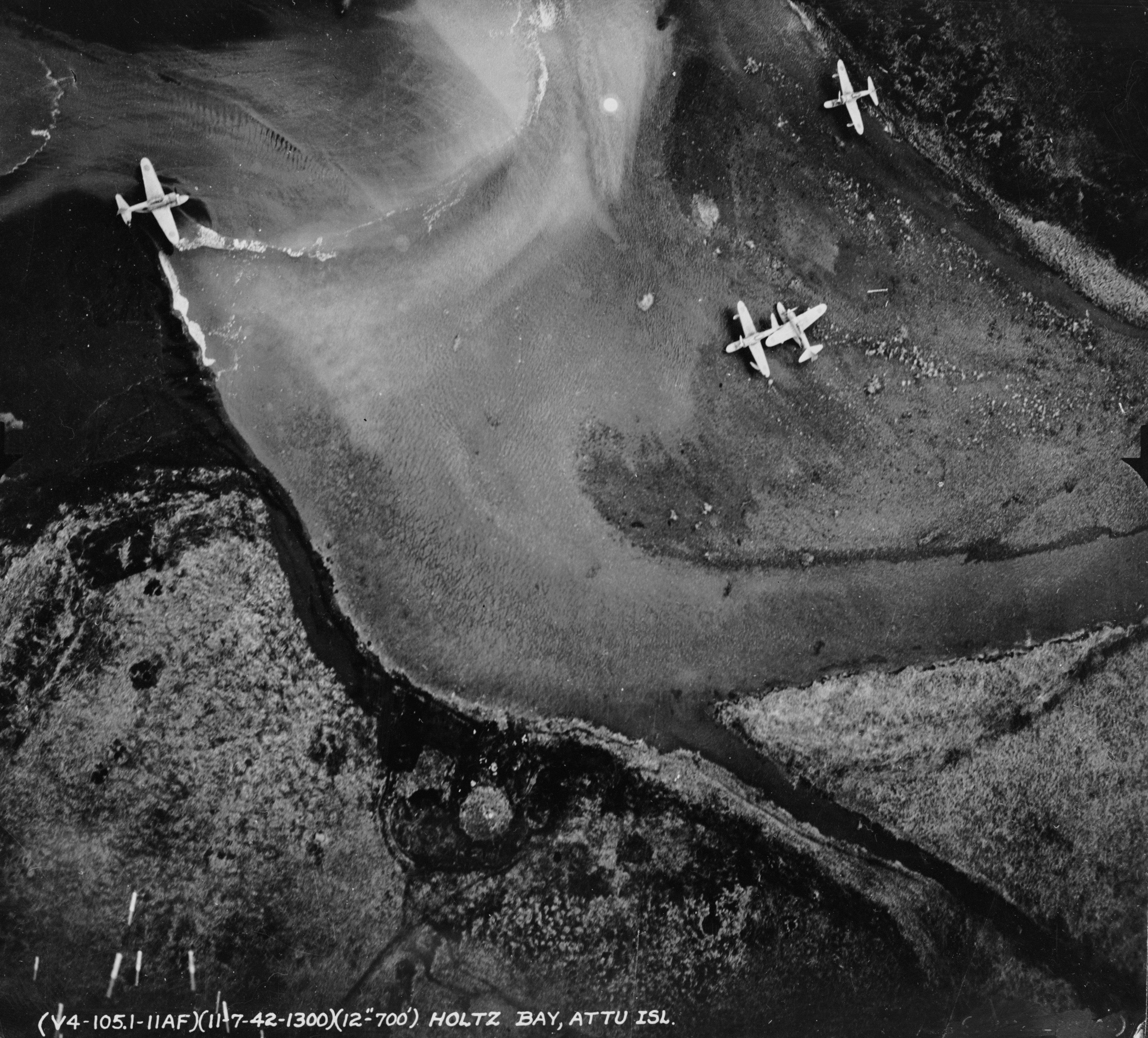 Four Japanese Misubishi A6M-2N Rufe seaplane fighters at Holtz Bay, Attu Island, Aleutian Islands (USA), on 7 November 1942, photographed by a USAAF plane. Note that the two planes in the center obviously have collided and been damaged.